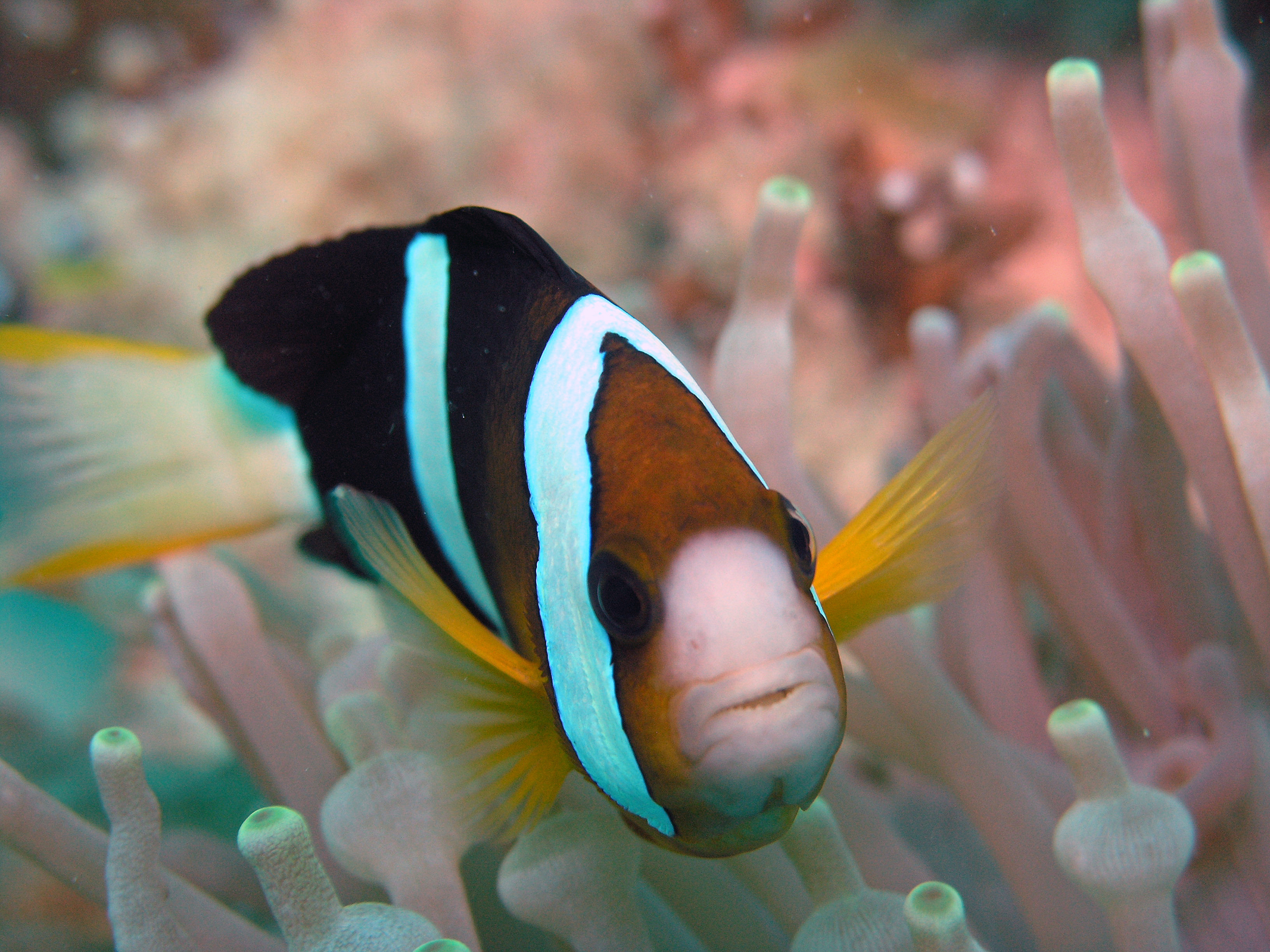 Image of a Clark's anemonefish. Amphiprion clarkii. Taken at Sipadan, Borneo, Malaysia.